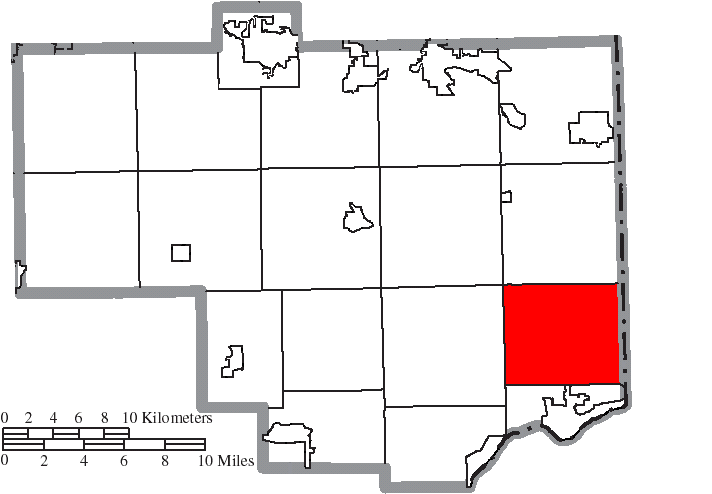 Map of the municipal and township boundaries of Columbiana County, Ohio, United States, as of the 2000 census, with the location of Saint Clair Township highlighted. Township borders are shown only in unincorporated areas in order to differentiate incorporated and unincorporated areas more clearly.